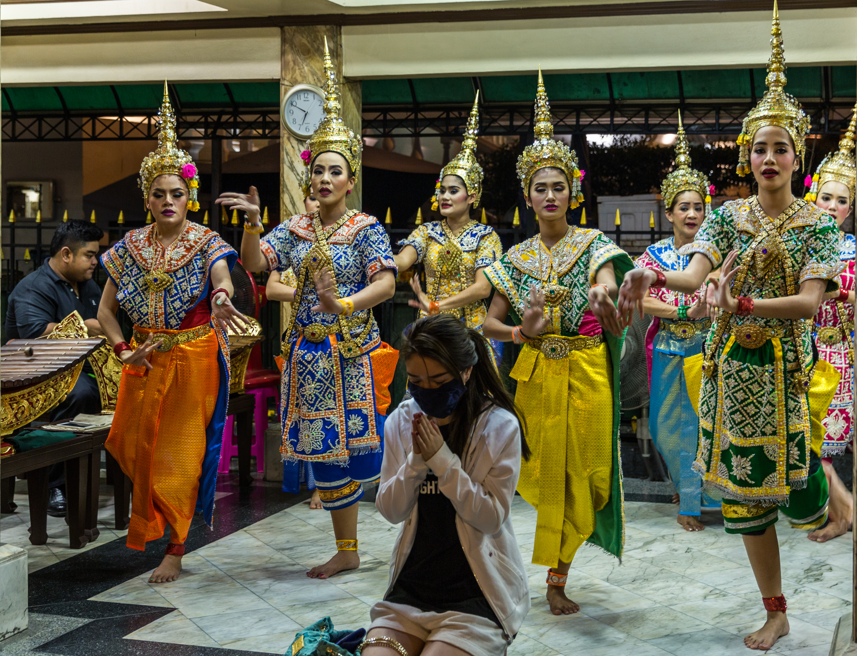 A worshipper prays to the statue of Brahma at the Erawan Shrine (not shown), as a troupe of dancers perform a dance as an offering to the deity.